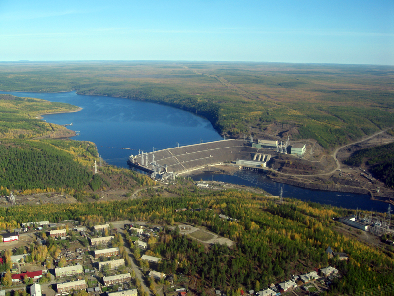 Vilyuy River Dam and Chernyshevsky settlement, Sakha (Yakutia) Republic, Russia